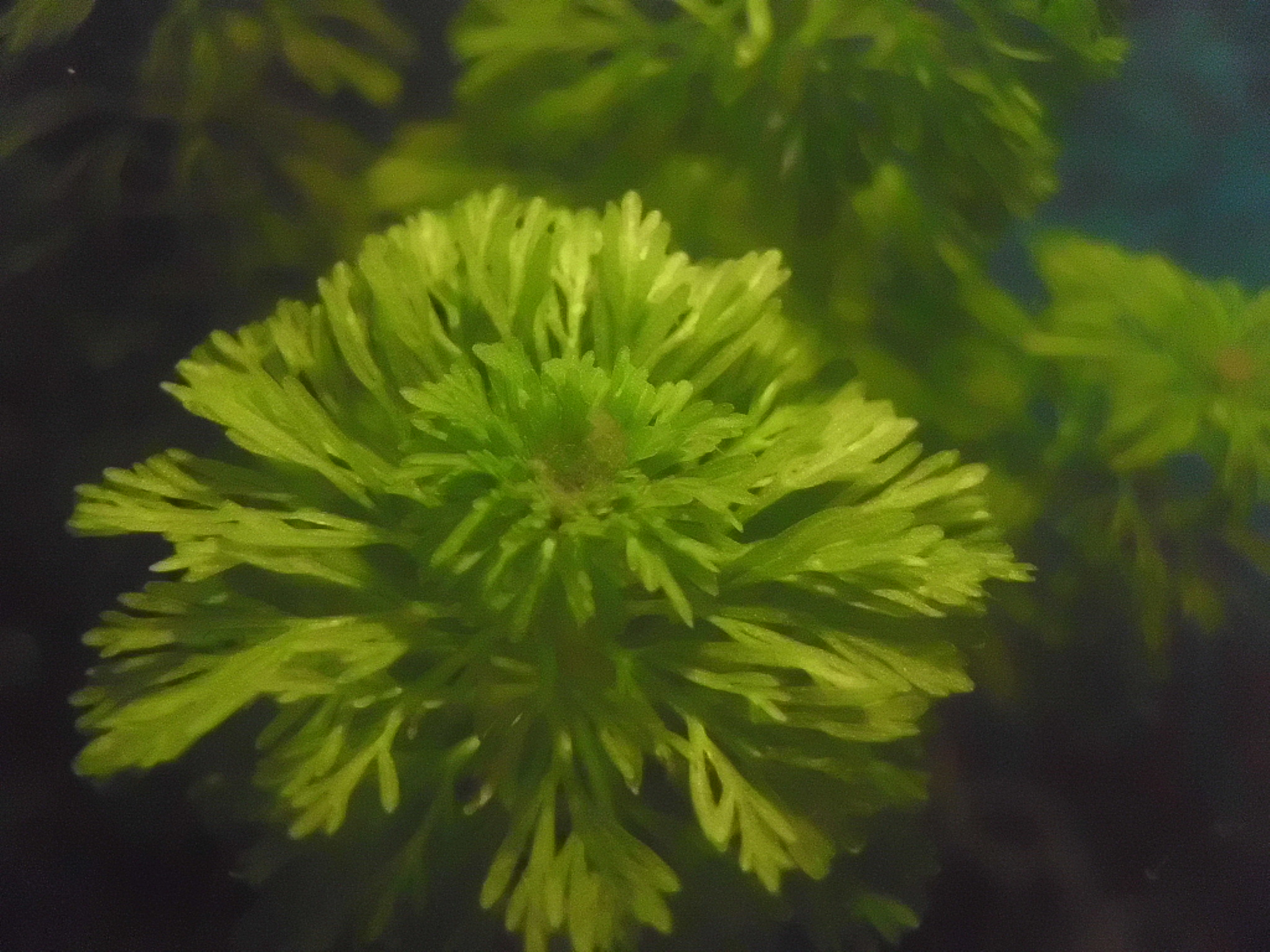 Punta de una planta ambulia